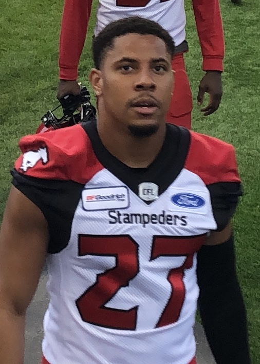 Jonathan Moxey, defensive back for the Calgary Stampeders.